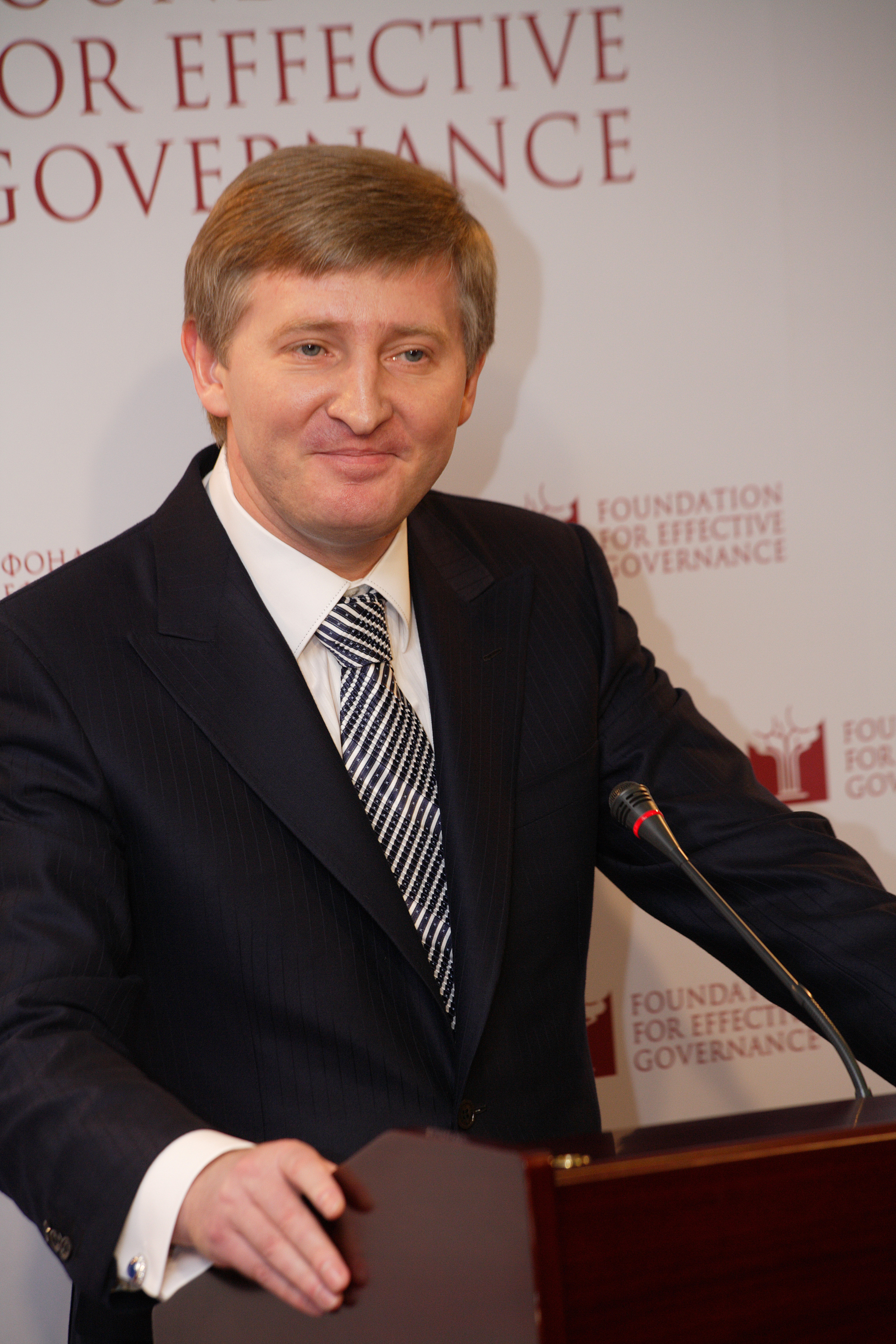 This is a photo of Rinat Akhmentov at a a Foundation for Effective Government forum on 2007